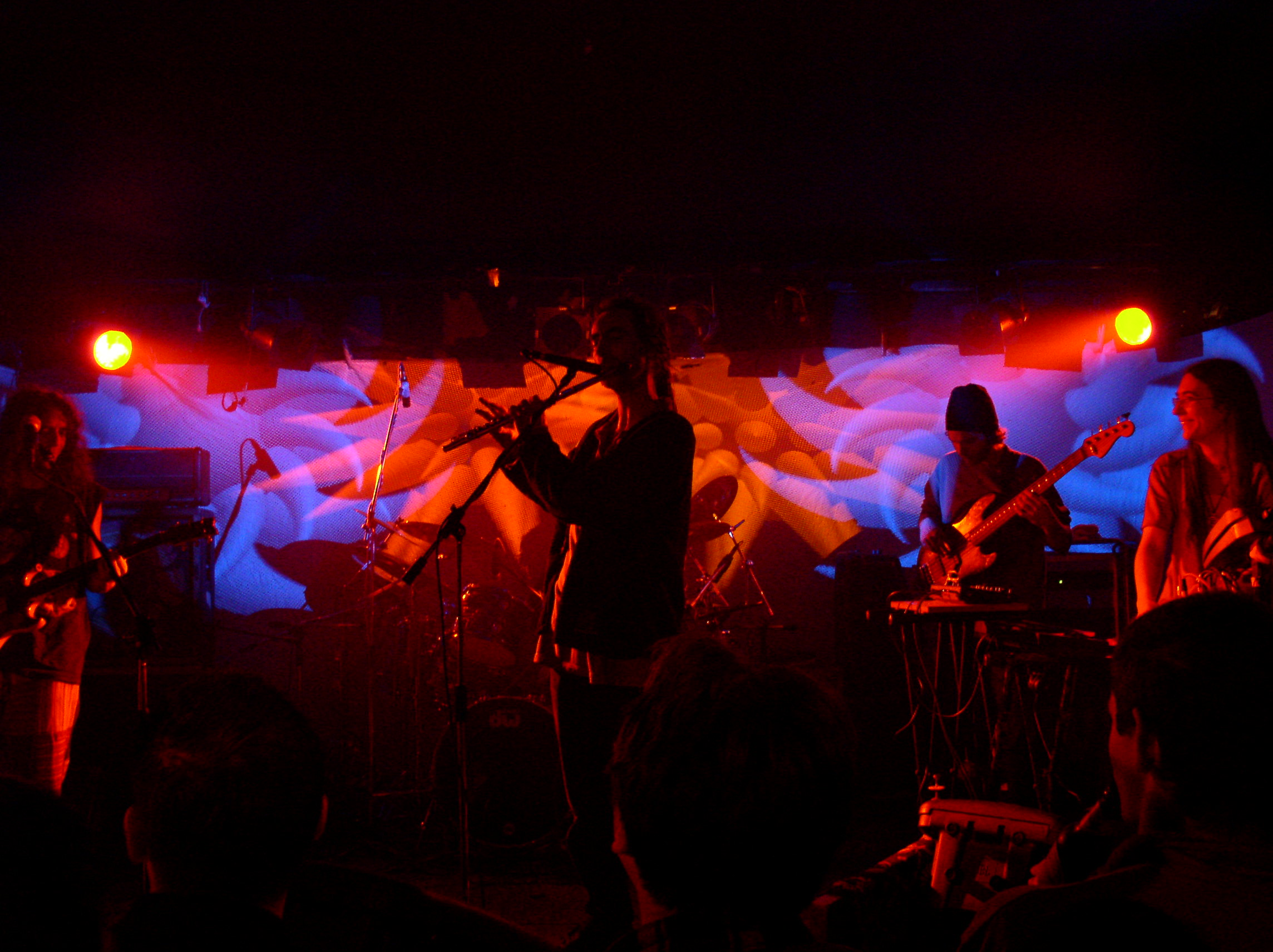 Ozric Tentacles live in Zagreb in 2004. I made it myself.